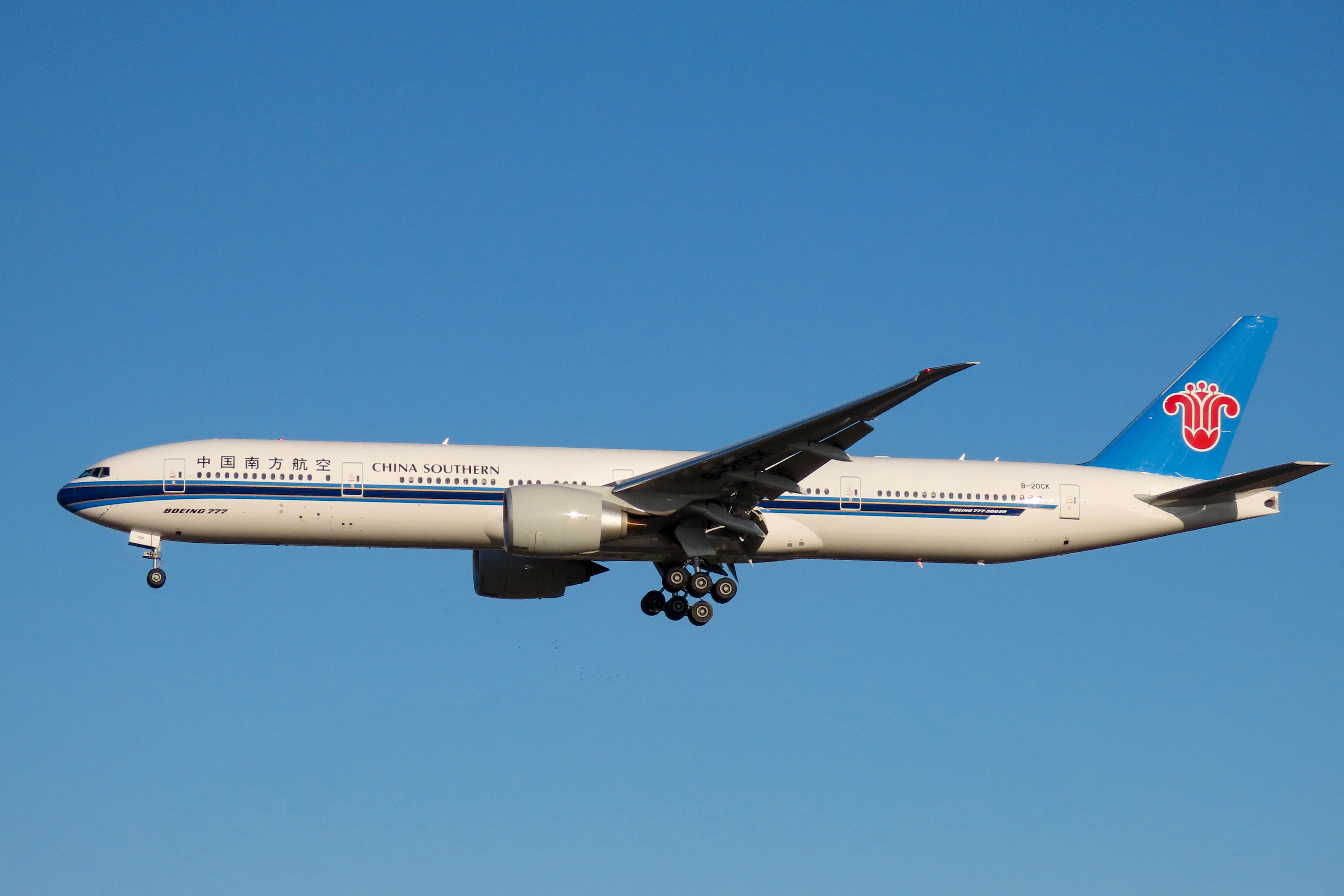 Nanfang 6162 from Chengdu. CTU-PEK via GUVBA...